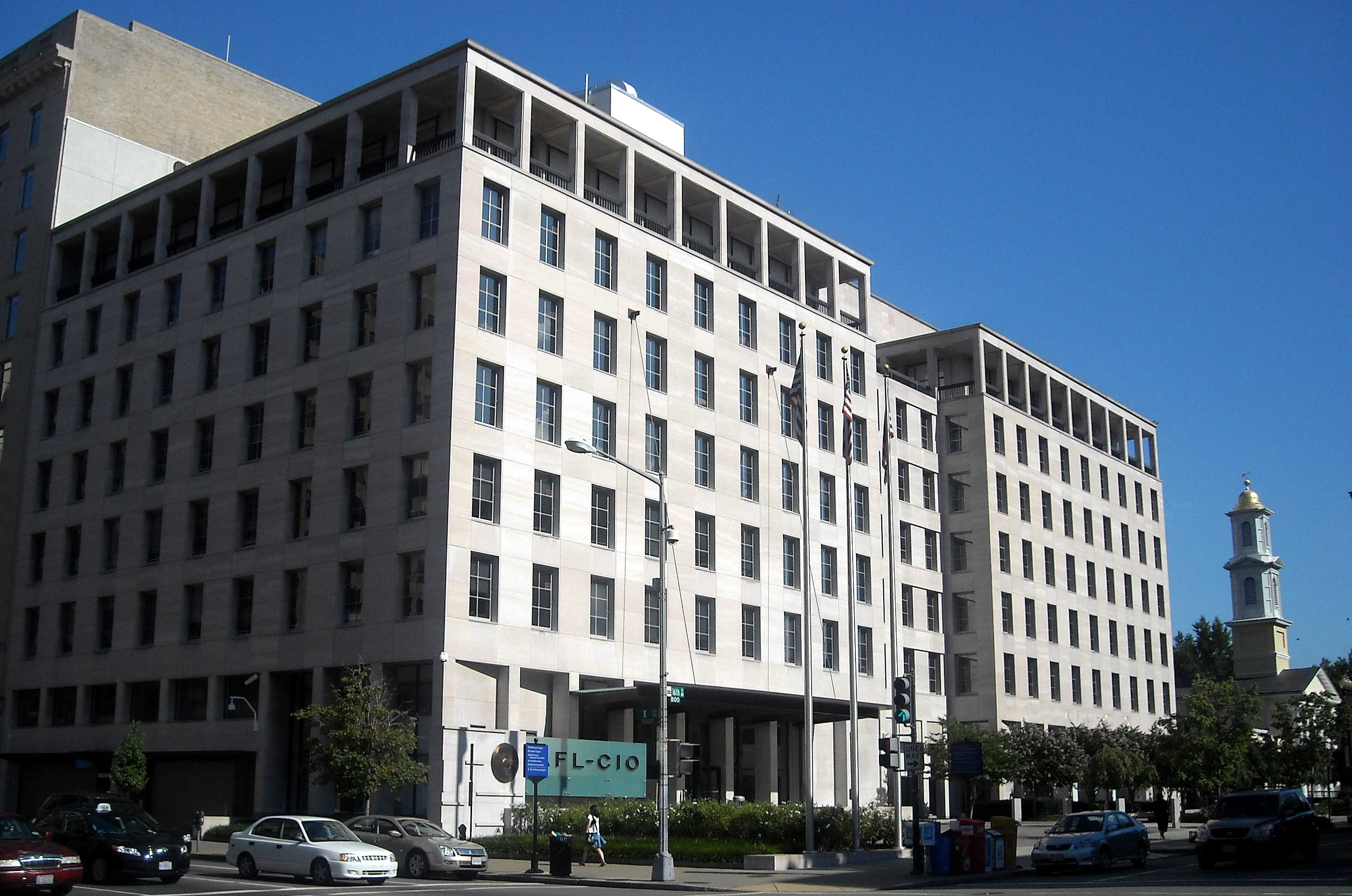 The AFL-CIO headquarters is located at 815 16th Street NW in downtown Washington, D.C. The modernist office building, constructed in 1956 and designed by Voorhees, Walker, Smith & Smith, is a contributing property to the Sixteenth Street Historic District.